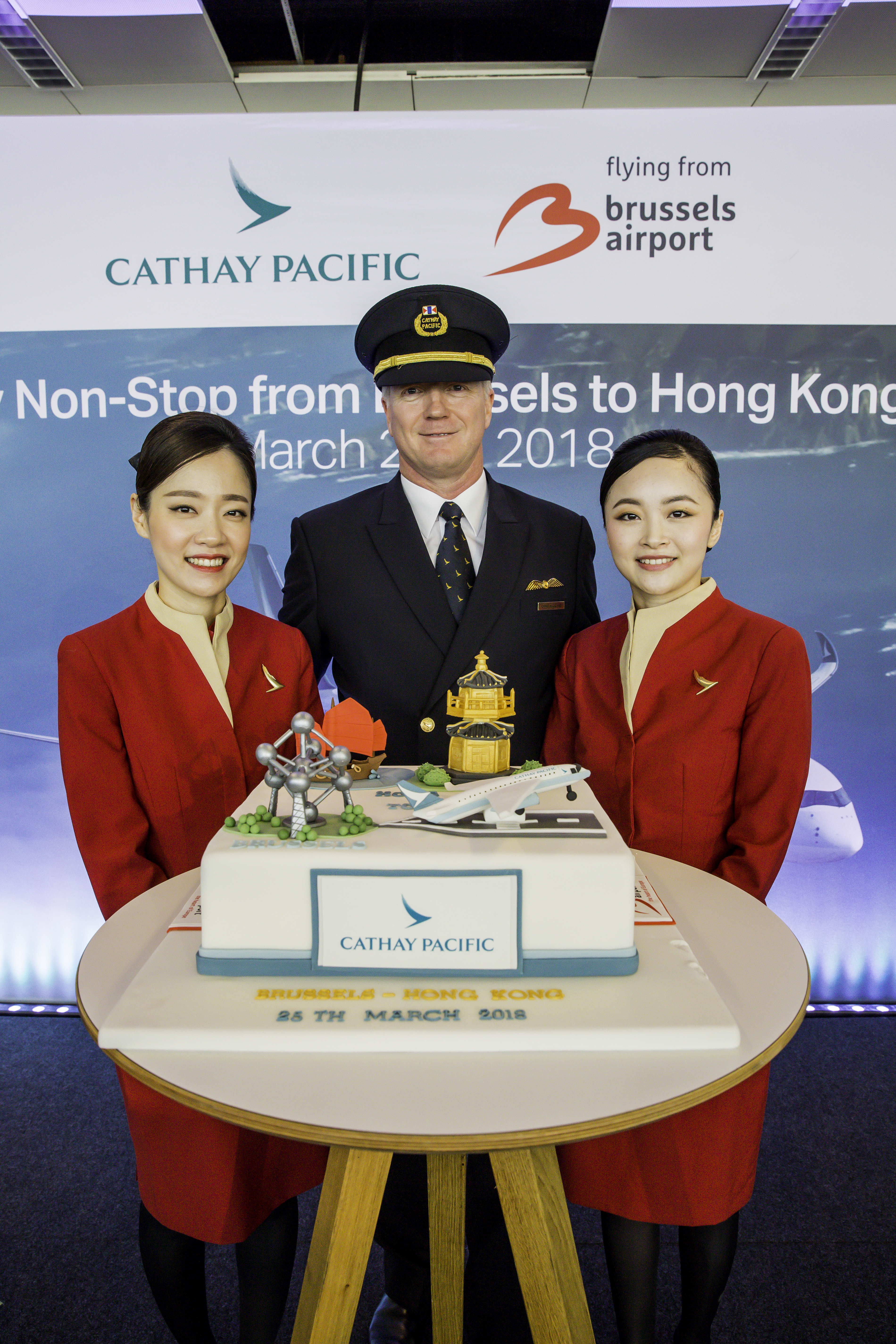 The cake